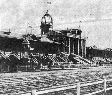 The Hipódromo Argentino, sited in Palermo, when it still had wooden stands.